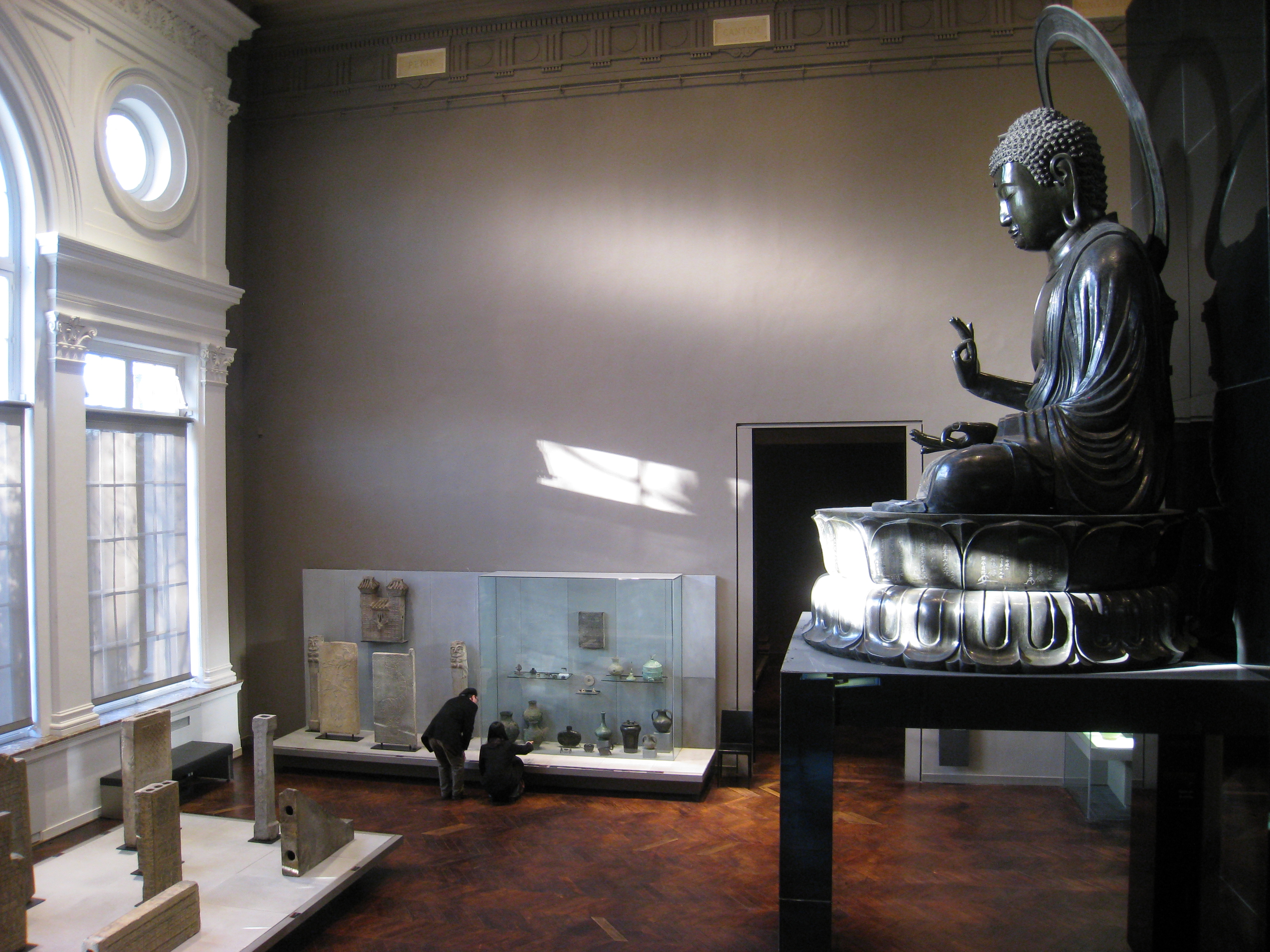 Musée Cernuschi, Paris, France - great hall. The original work is old enough so that copyright (if any) has long since expired. The museum imposed no restrictions on photography (except prohibiting flash) in writing and when I explicitly asked; thus the original image appears free of copyright restrictions.